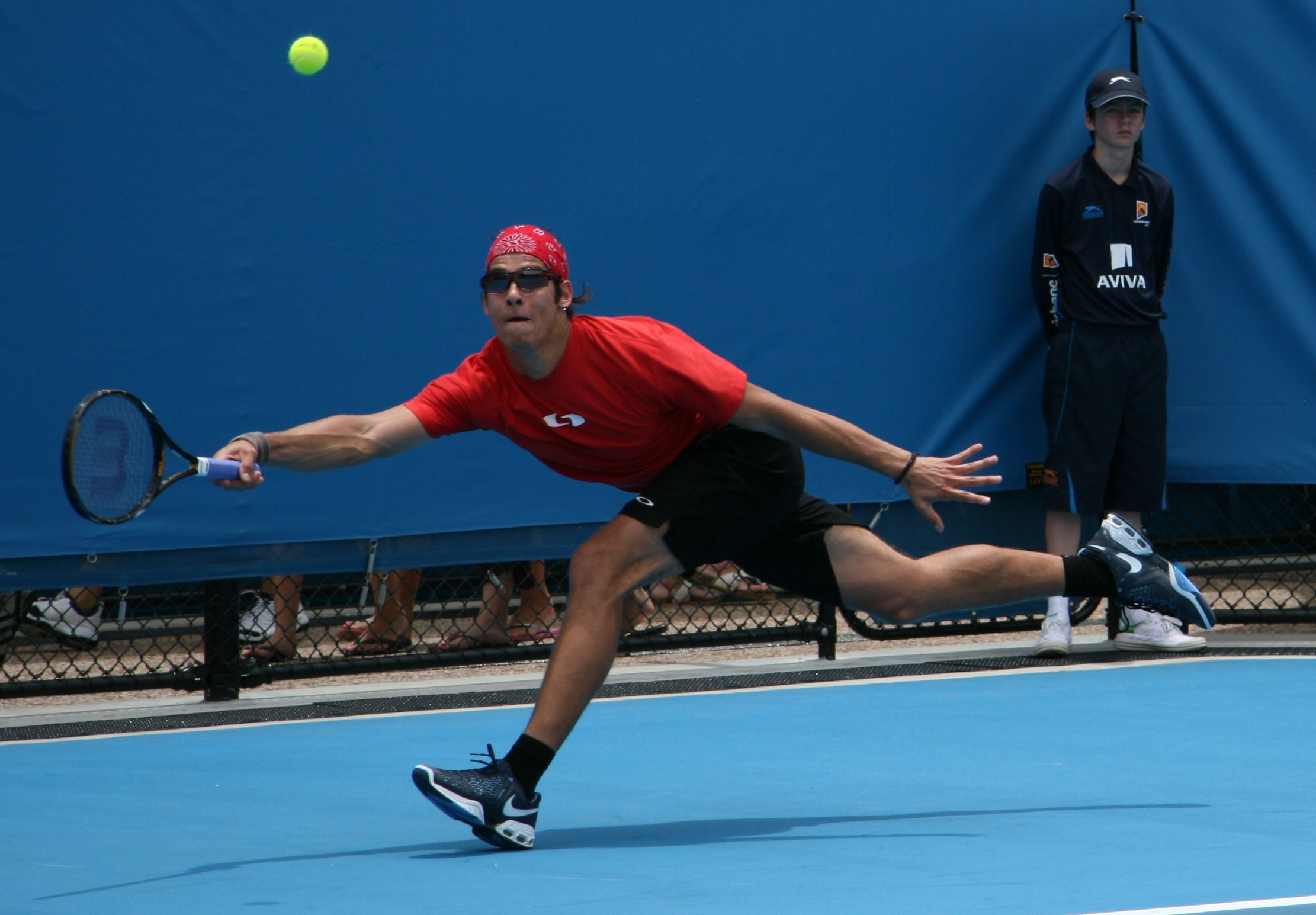 Ilia Bozoljac at the 2009 Brisbane International